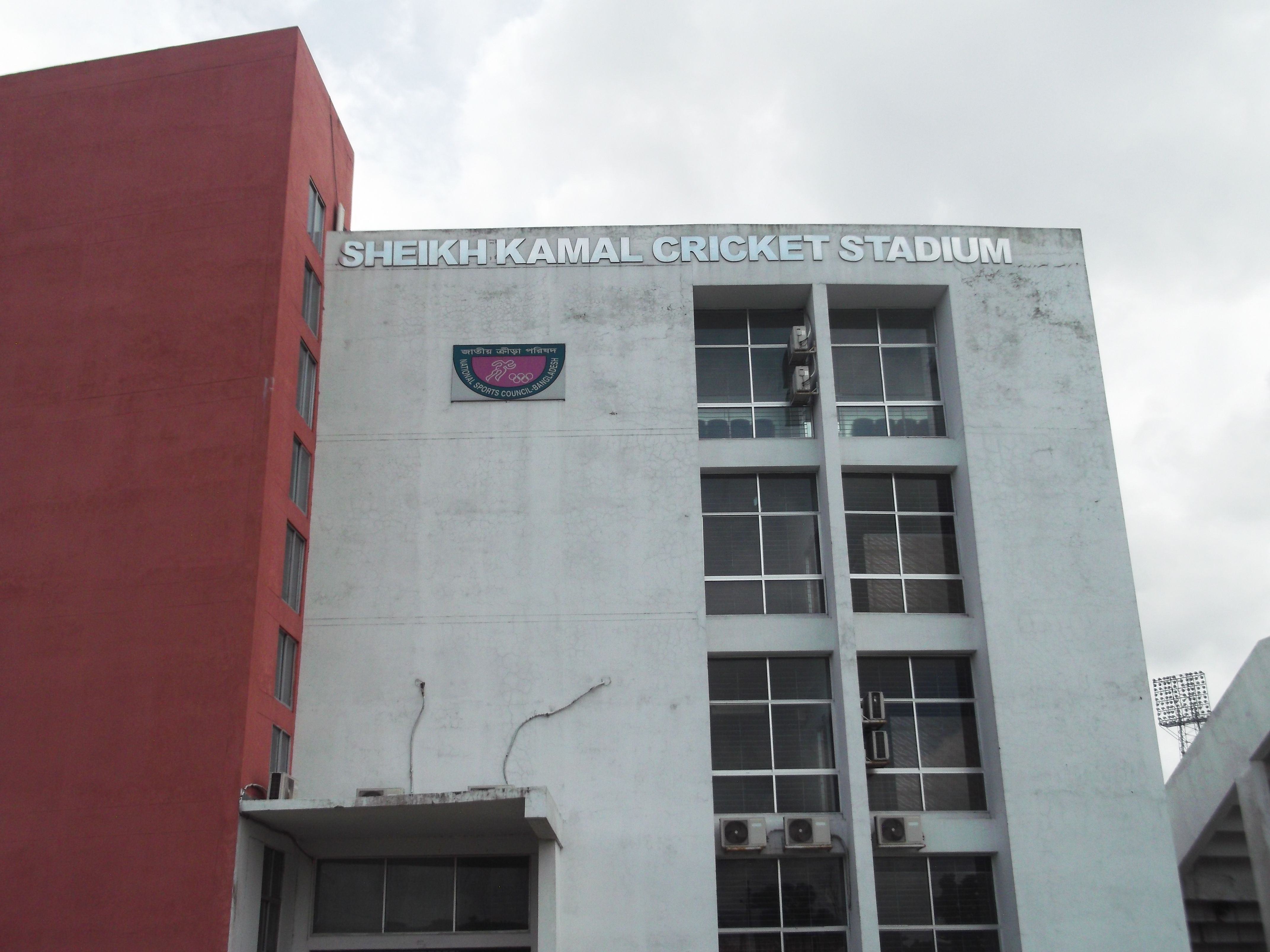 sheikh kamal cricket stadium